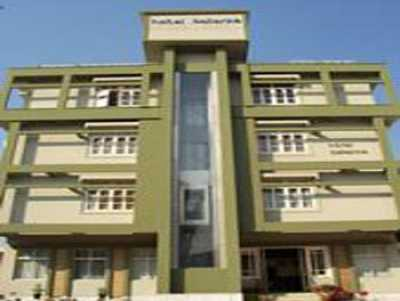 Hotel Ballerina, Tinsukia